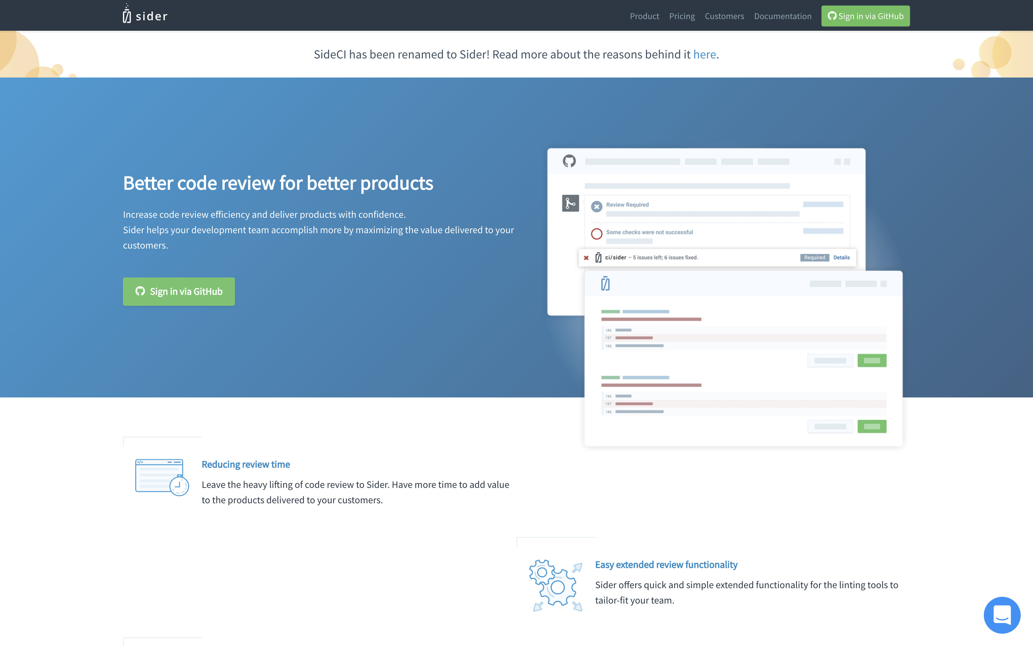 Sider